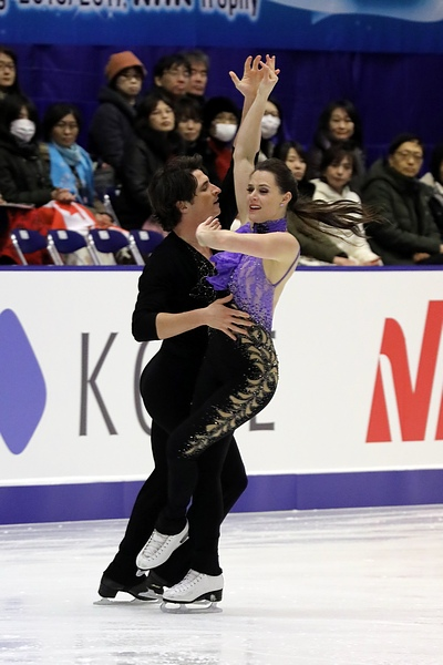 Tessa Virtue and Scott Moir at the 2016 NHK Trophy